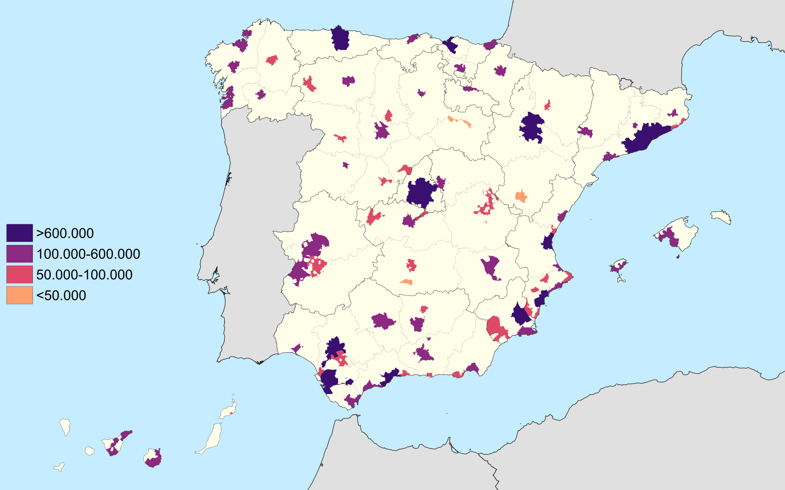 As per the Ministry of Development, 2018 population as per Spanish Statistics Institute